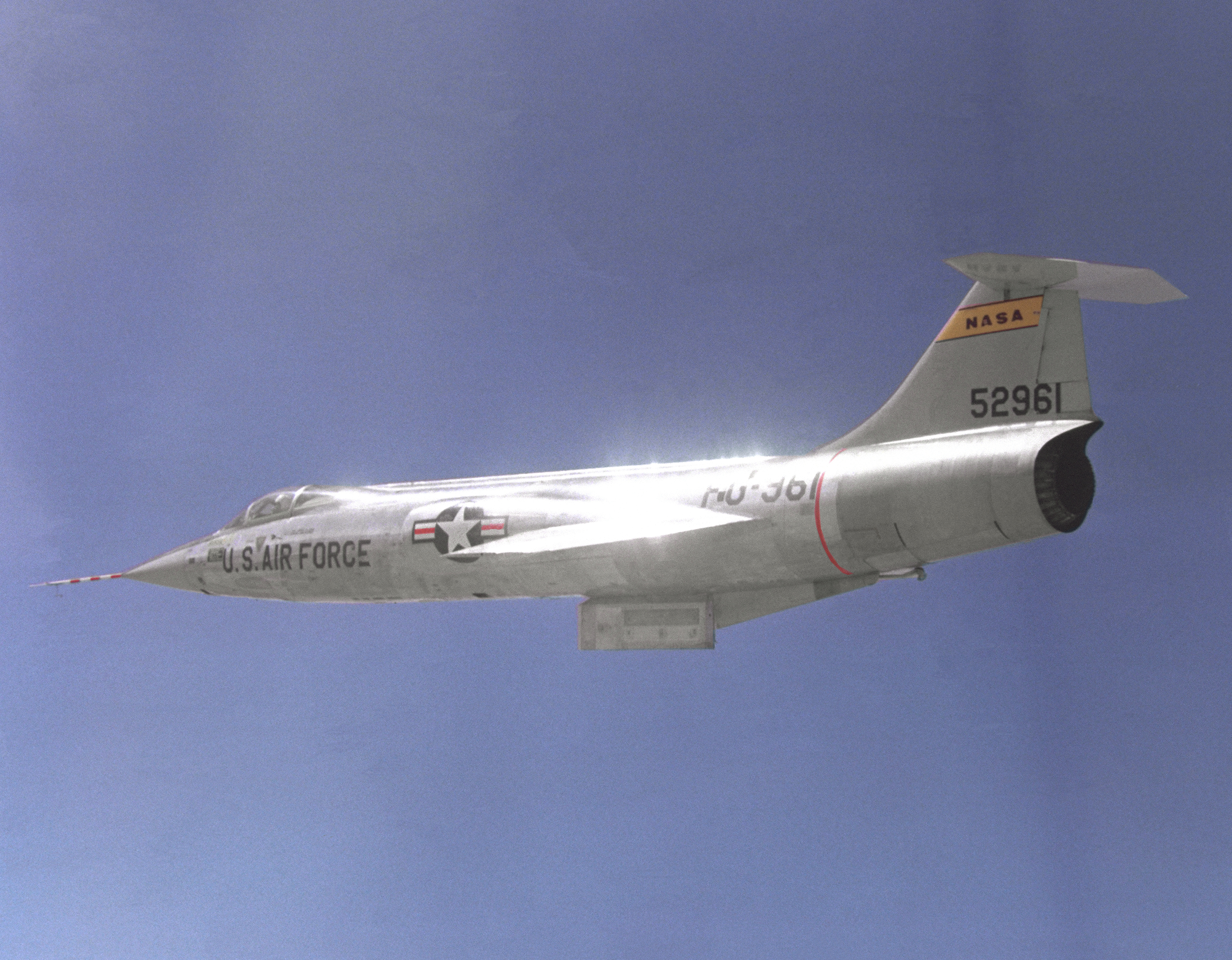 The NASA JF-104A Starfighter with a ventrally-mounted test fixture.